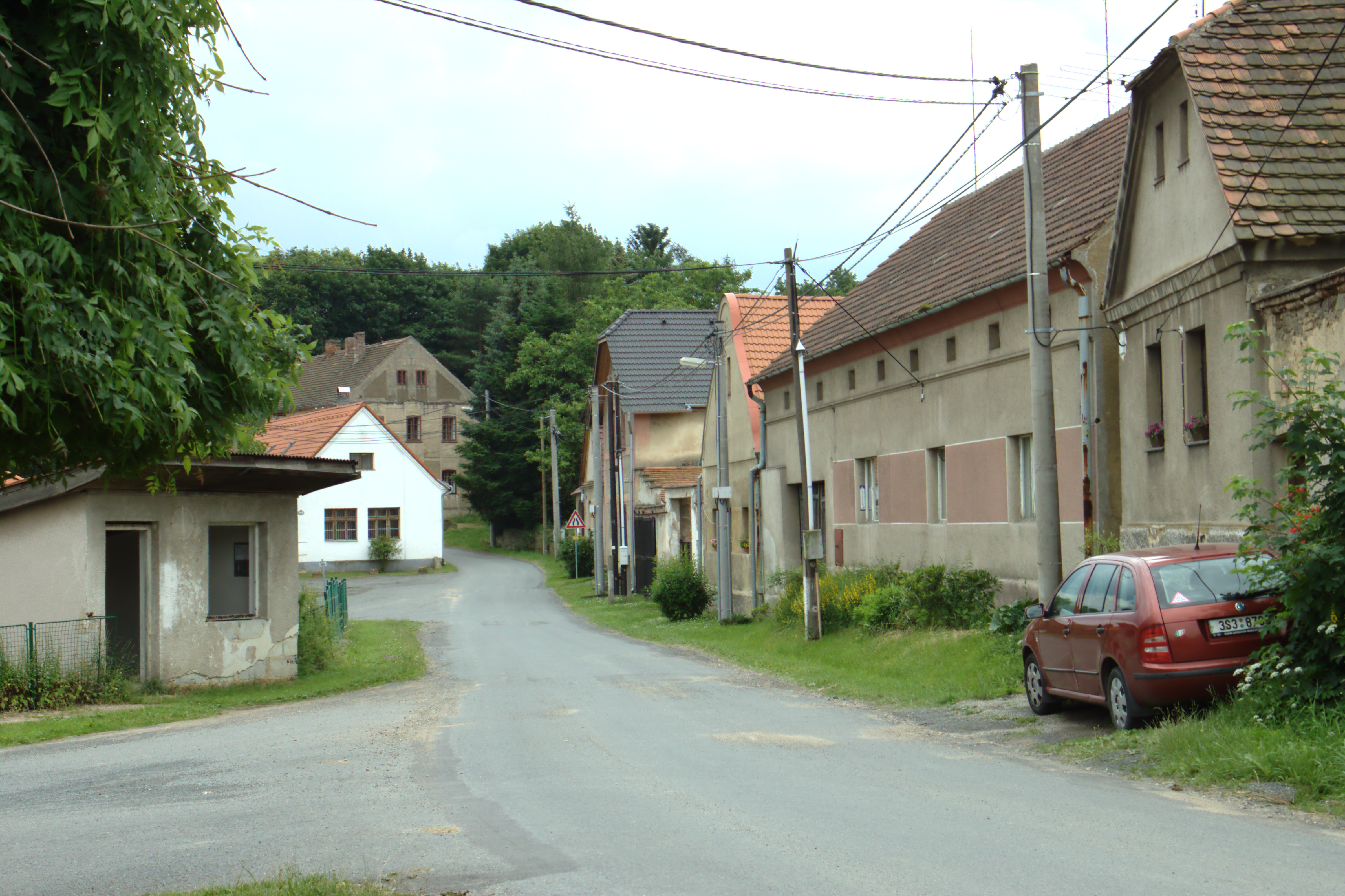 Town of Lašovice near Rakovník, Central Bohemian Region, CZ